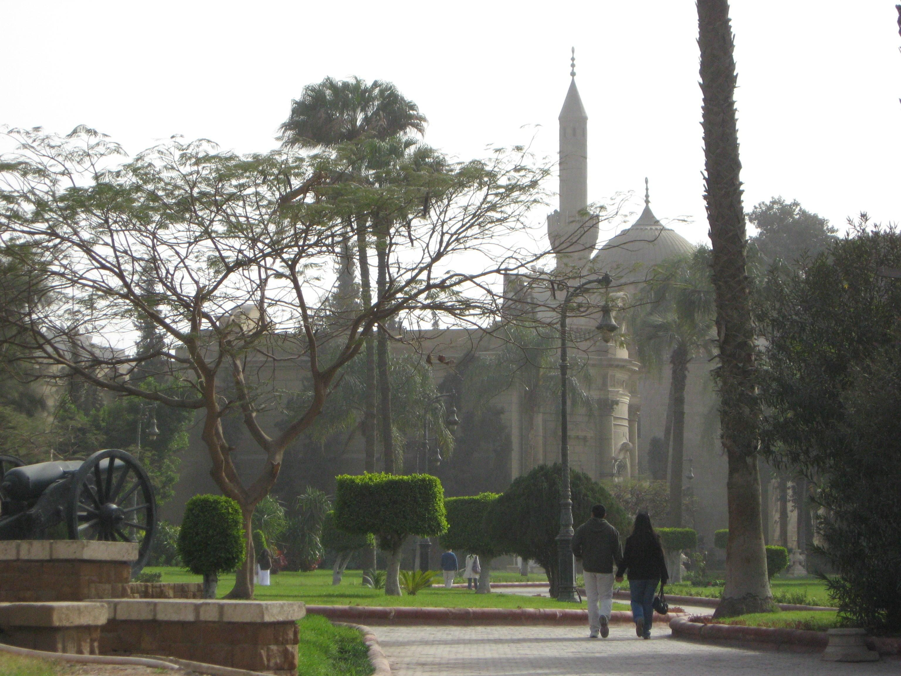 Image title: Couple walking in a Cairo garden Egypt Image from Public domain images website